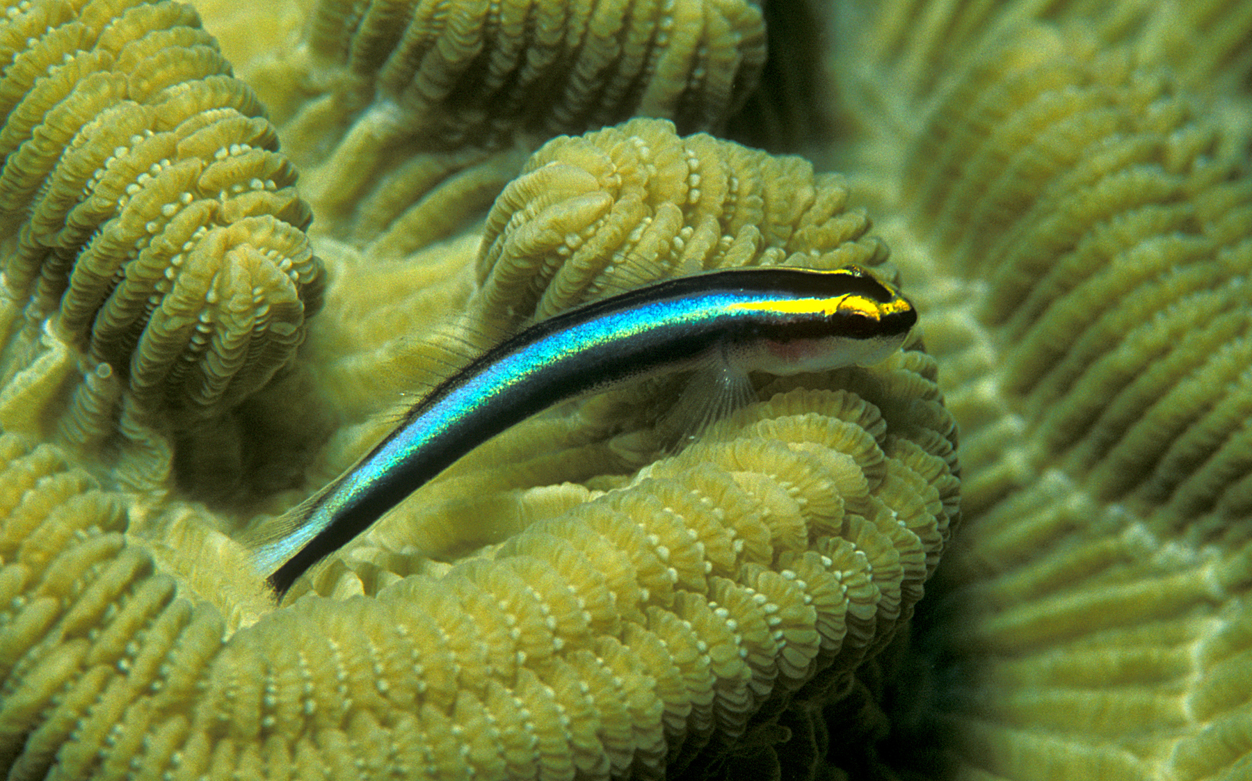 105mm macro profile of a tiny sharknose goby (Elacatinus evelynae) resting on a boulder brain coral (Colpophyllia natans) photographed in the waters of the Dutch Caribbean. Make this little fish.